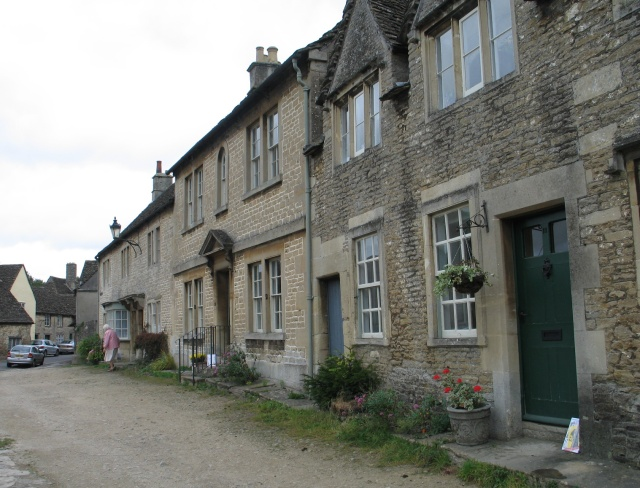 Terraced Housing at Lacock